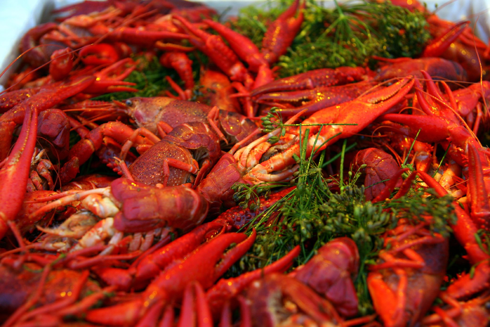 Boiled crayfish with dill